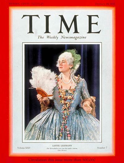 Lotte Lehmann on the cover of Time magazine. February 18, 1935 Lotte Lehmann na capa da revista Time em 1935.